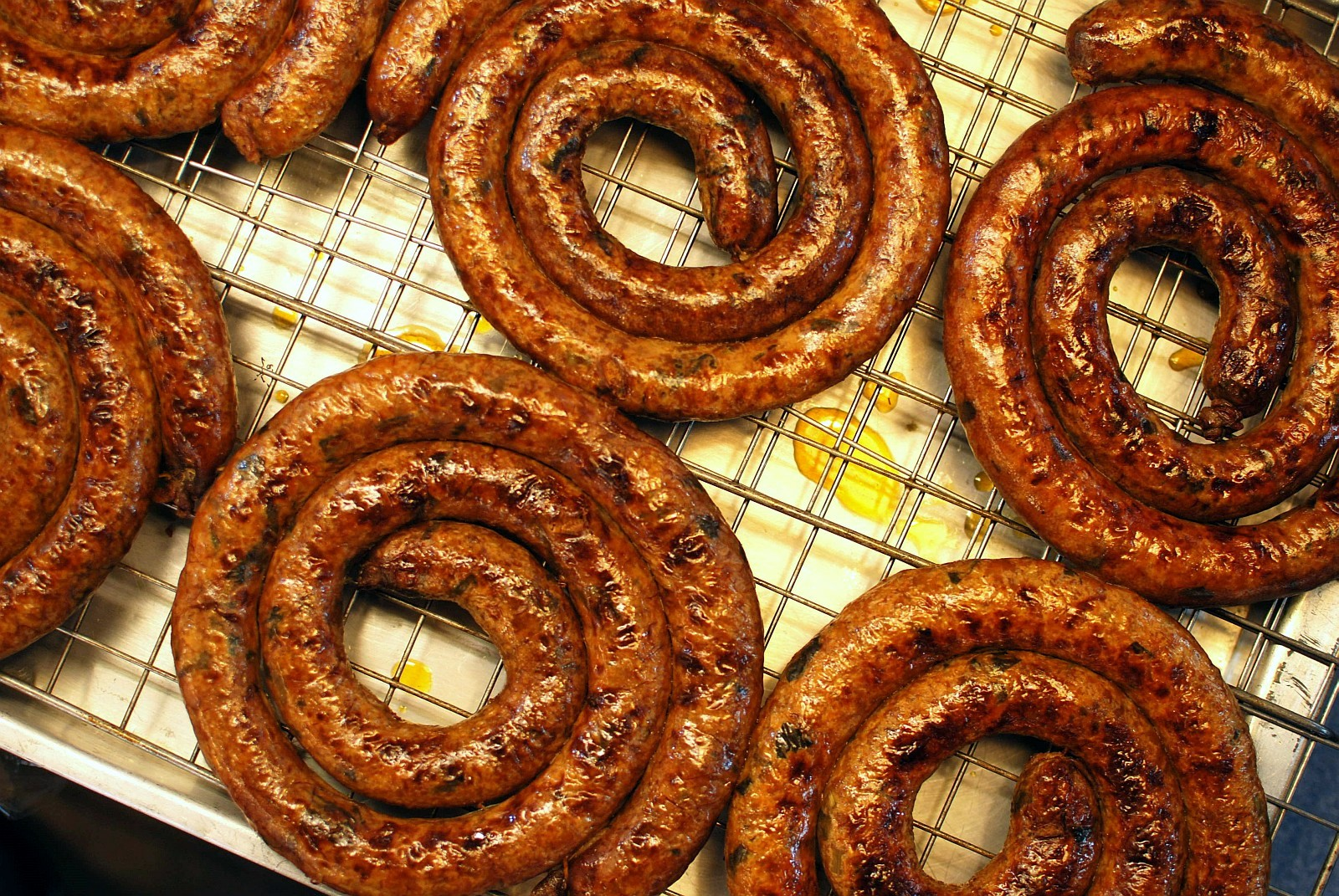 Sai ua (ไส้อั่ว) is a type of sausage from Chiang Mai which is highly regarded in the rest of Thailand. It is a slightly spicy grilled pork sausage containing red curry spices and fresh herbs. The taste of finely shredded kaffir lime leaves, coriander leaves and lemon grass permeates the dish. Those shown here are about 25mm (1 inch) thick. It is often eaten as a snack on its own or served with peanuts, chopped ginger, chopped chillies and sliced shallots as a starter. Additional herbs and (raw) vegetables are optional.